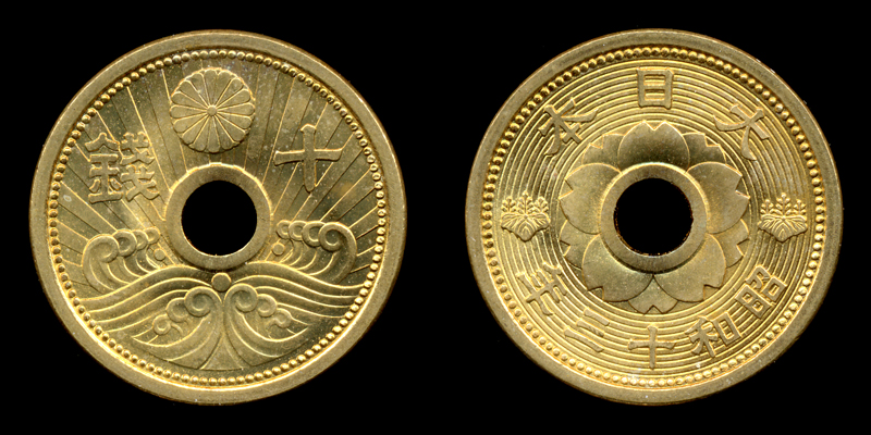 10sen-S13